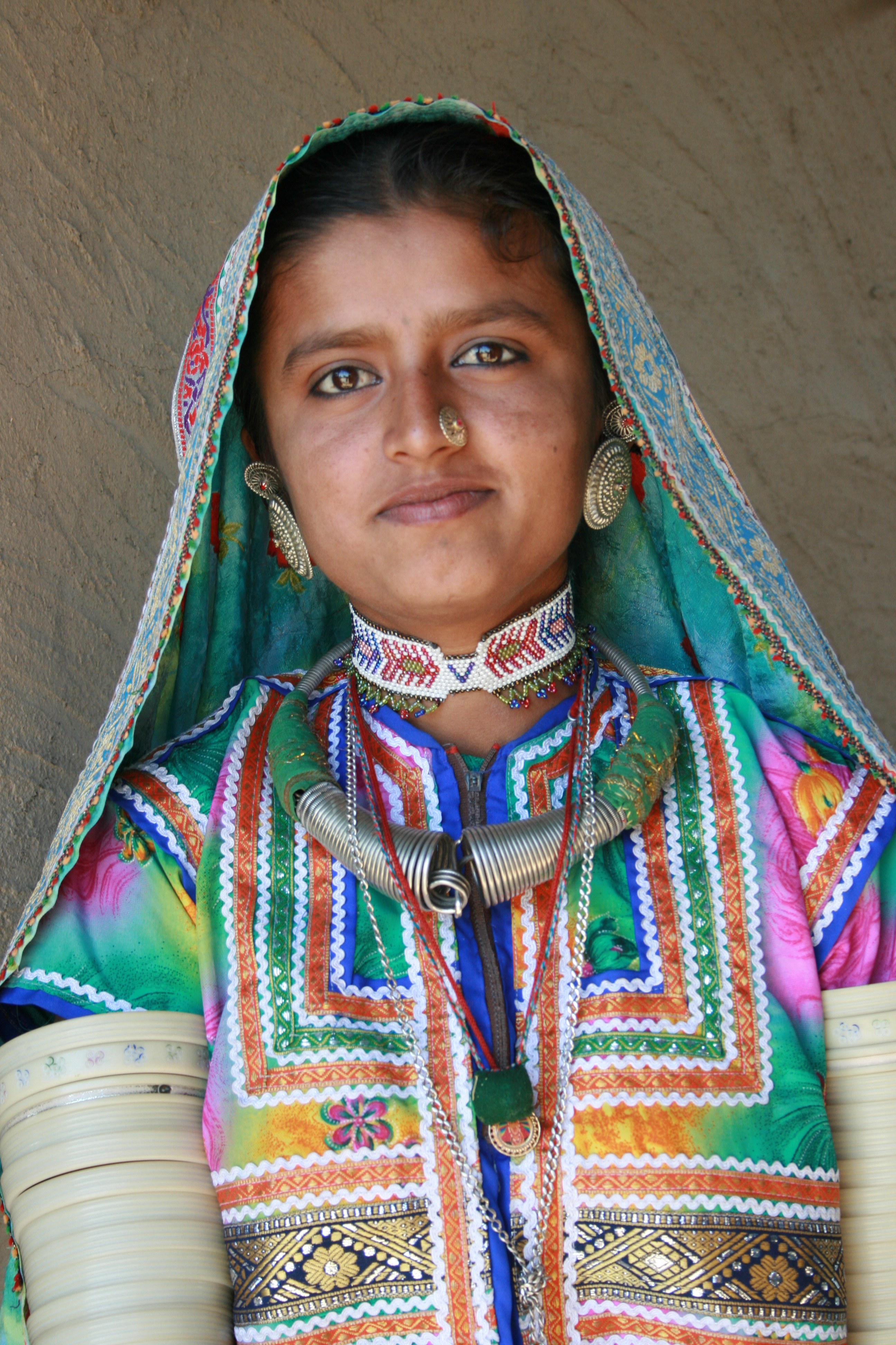 This is a Banni Tribes woman. She is from the area of Kutch in Gujarat. This area has many tribal people who are experts at embriodery, textiles, jewellery, leather work and pottery. They are amazingly friendly and I felt most welcomed by them. Country India